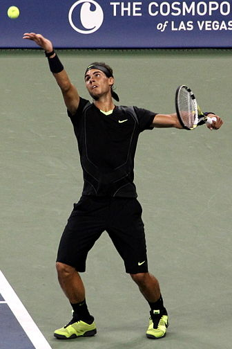 Nadal vs. Lopez match on Tuesday night, 9/7 at the US Open. The Cosmopolitan is in New York for the 2010 US Open, inviting attendees and guests to experience signature views from our Overlook and in our custom designed suite with prime-stadium seating. For more information on The Cosmopolitan visit